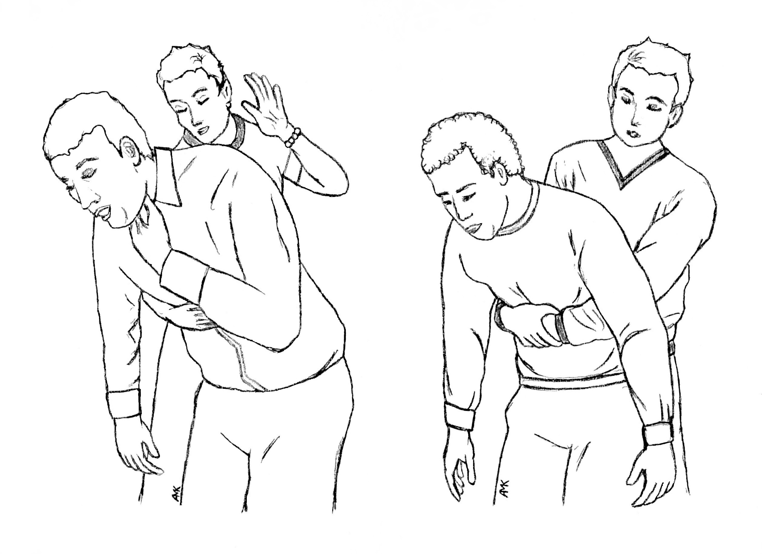 Abdominal Thrust / Heimlich Manoeuvre